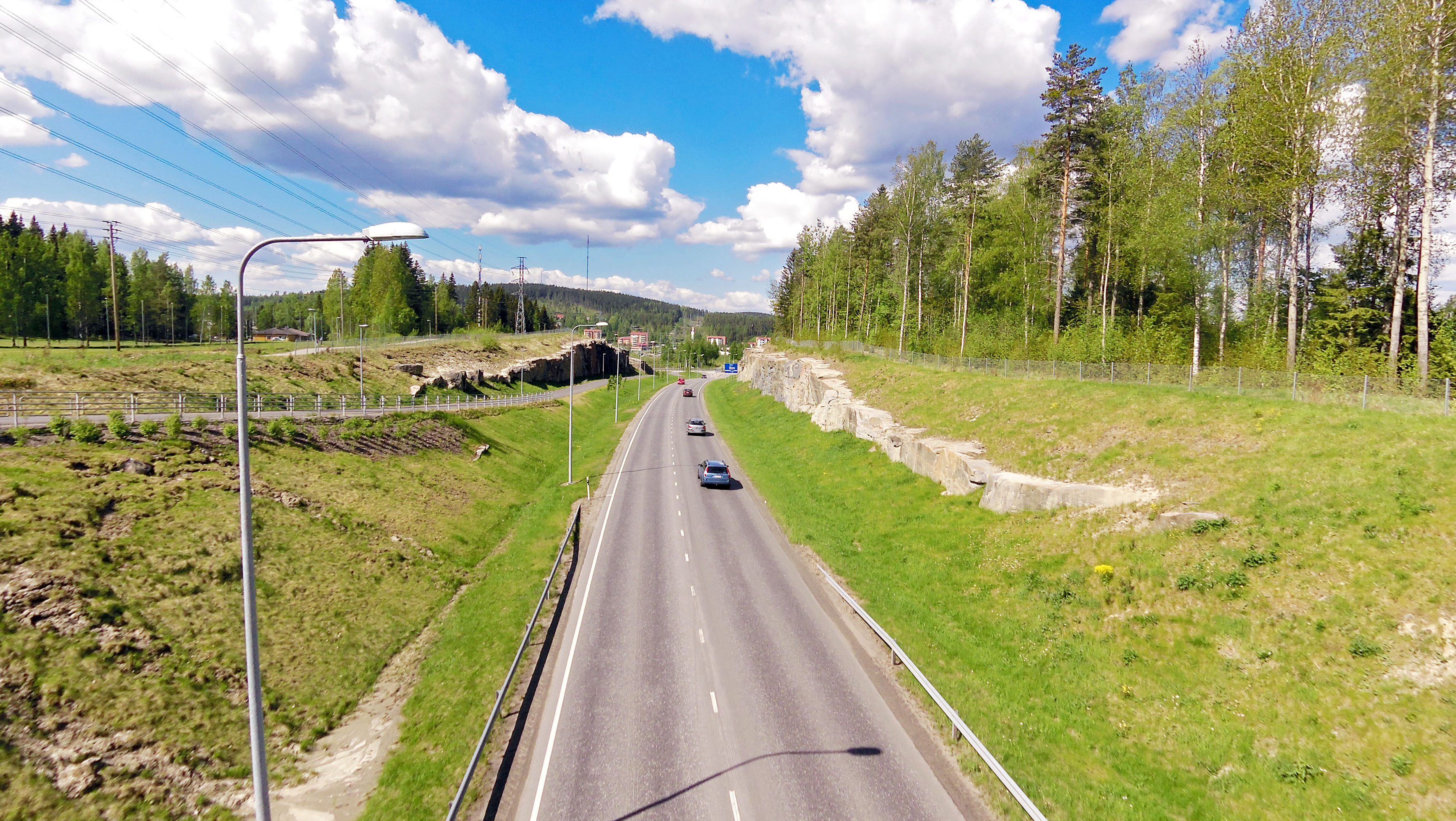 The street Tikanväylä in Jyväskylä. View to the west.